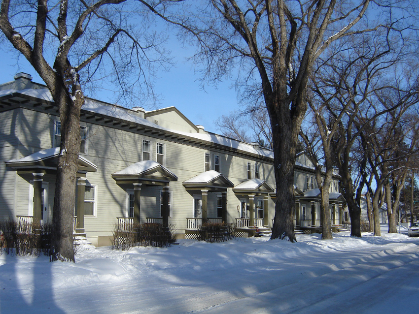 Saskatoon Heritage Society Protected Blocks and Houses Thirteenth Street Terrace 711 -723 13th Street East - 1911Nutana, Nutana SDA, Saskatoon, Saskatchewan, Canada